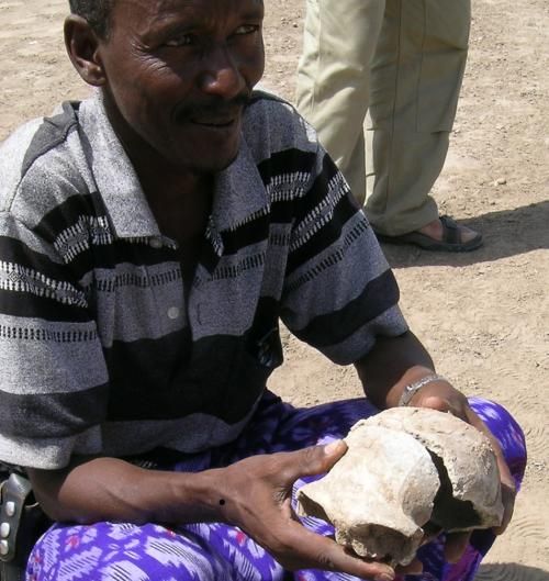 Asahmed Humet holding the Gawis cranium, shortly after he discovered it.